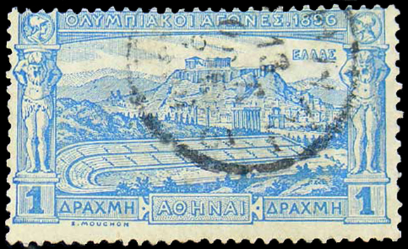 Stamp of Greece, The First Olympic Games, 1896, 1d.